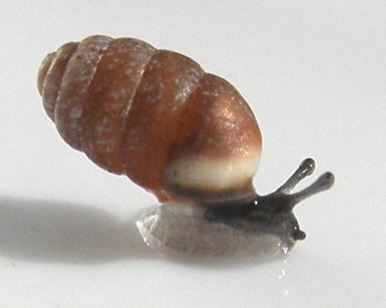 Photo of a right side view of Pupilla muscorum